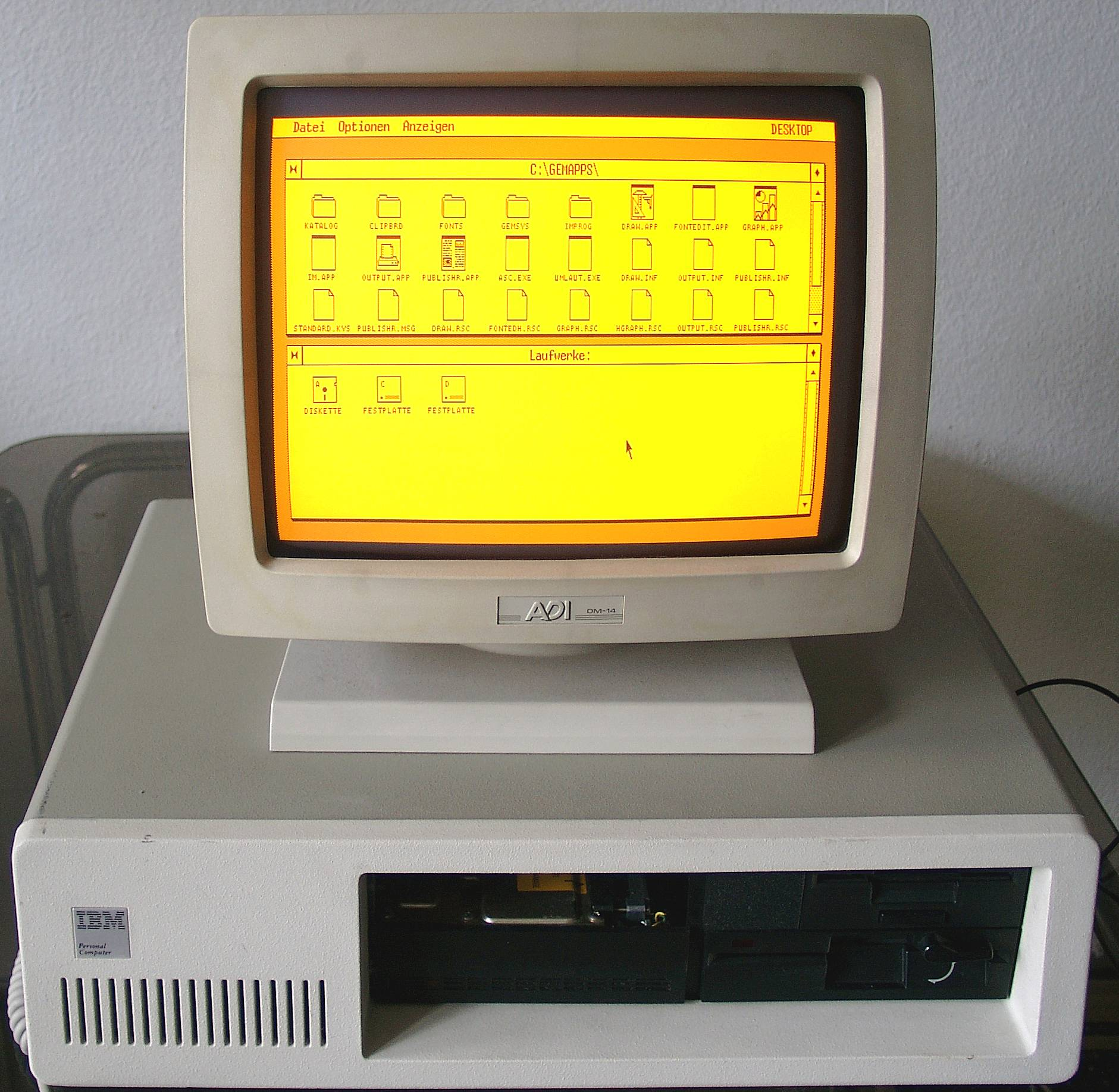 IBM Personal Computer and ADI monitor running GEM